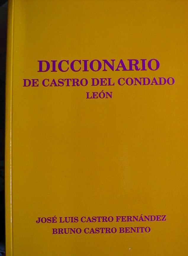 Dictionary of Castro del Condado (a town in the Spanish province of Léon) by: Jose Luis Castro Fernandez and Bruno Castro Benito, 280 pag. Ed. 2009-2010. Publisher San-Per. Palencia.